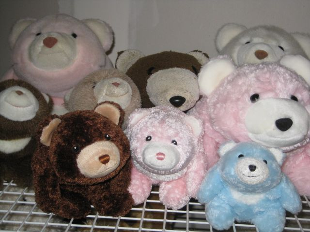 A collection of various Gund Snuffles over the years, including an original Snuffles (center back).